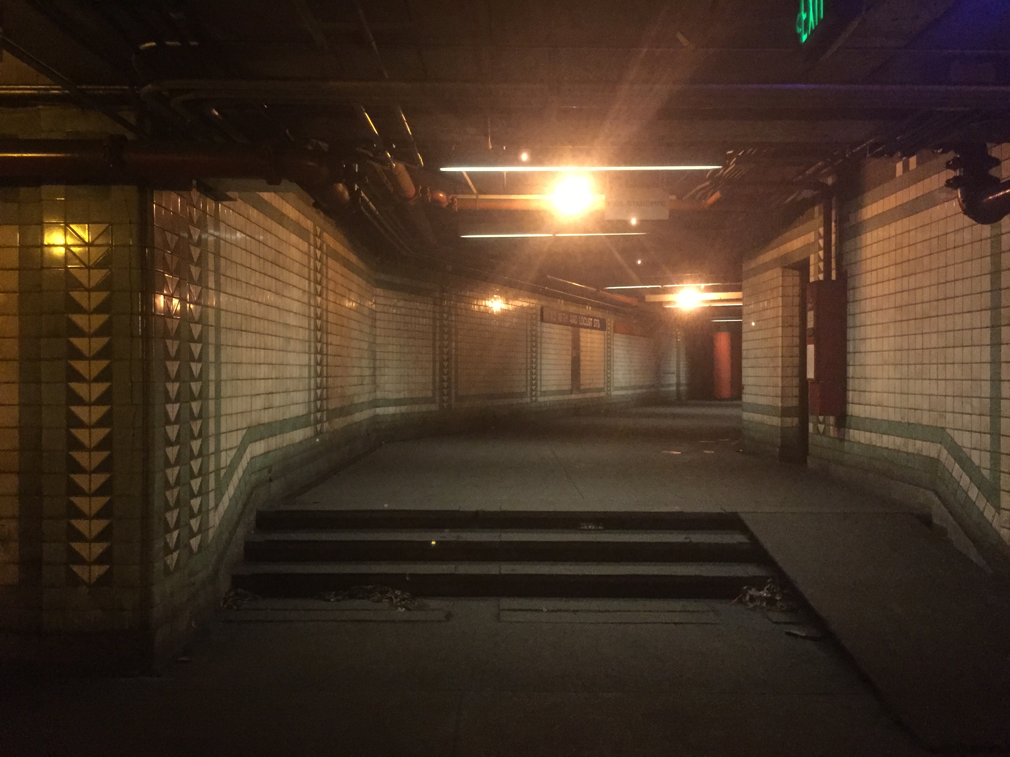 The alleyway connecting the two side platforms in the shuttered PATCO station under Philadelphia's Franklin Square, as viewed from a stopped westbound train.